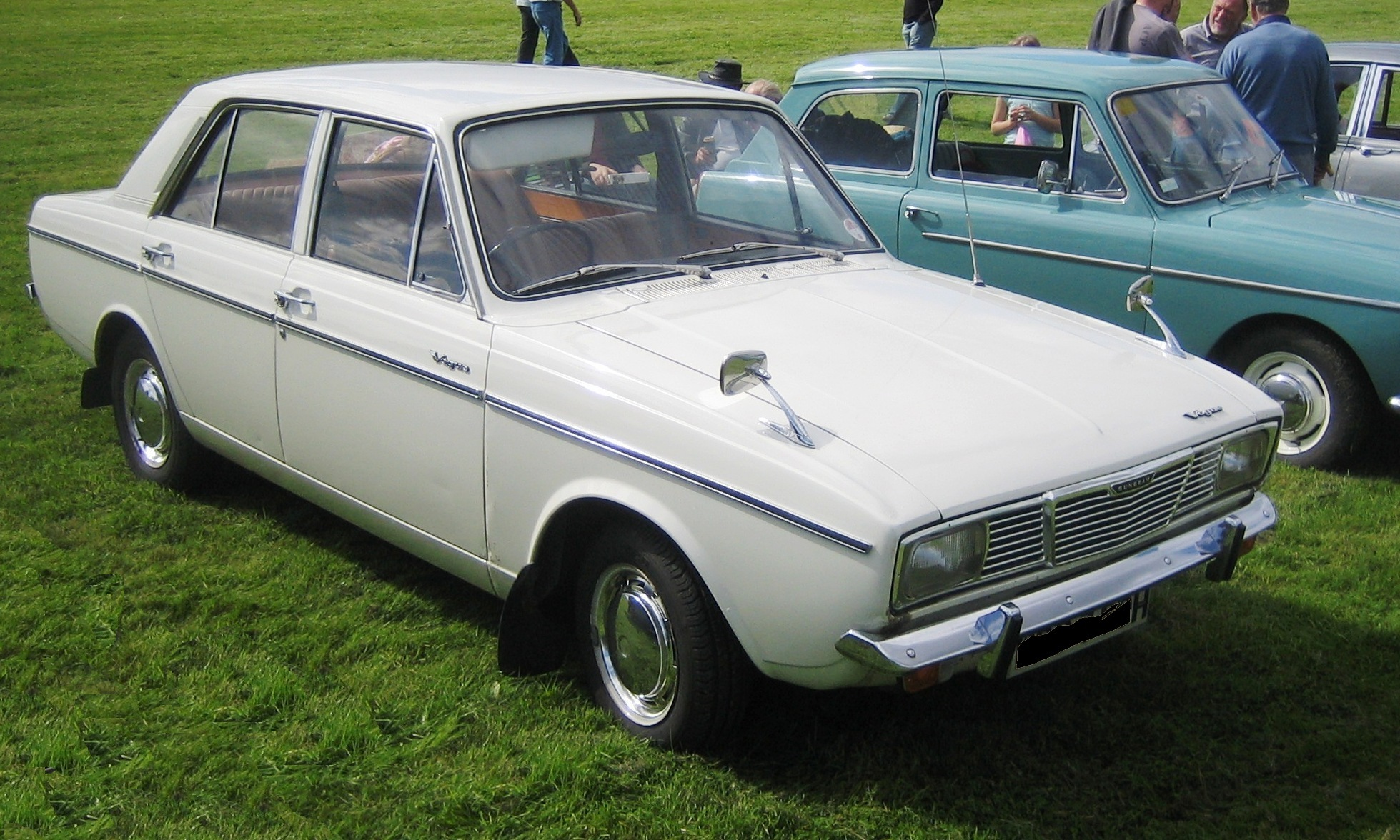 Sunbeam Vogue. The car was known in the UK as the Singer Vogue, but was branded as the Sunbeam Vogue for certain export markets. This is a right hand drive example which would normally imply UK or Irish market, but it nevertheless carries a the Sunbeam Vogue name on its boot / trunk. Maybe it started life as an export to Malta.